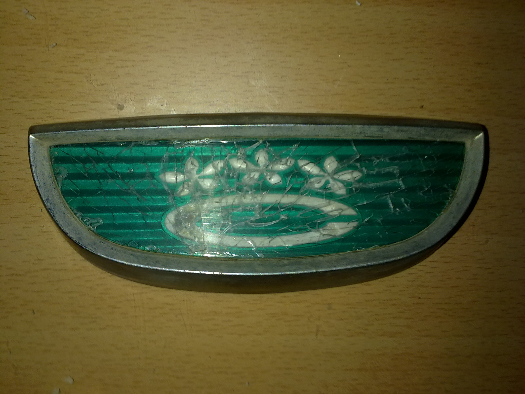 Georgy's Toyota Corolla 1960s emblem